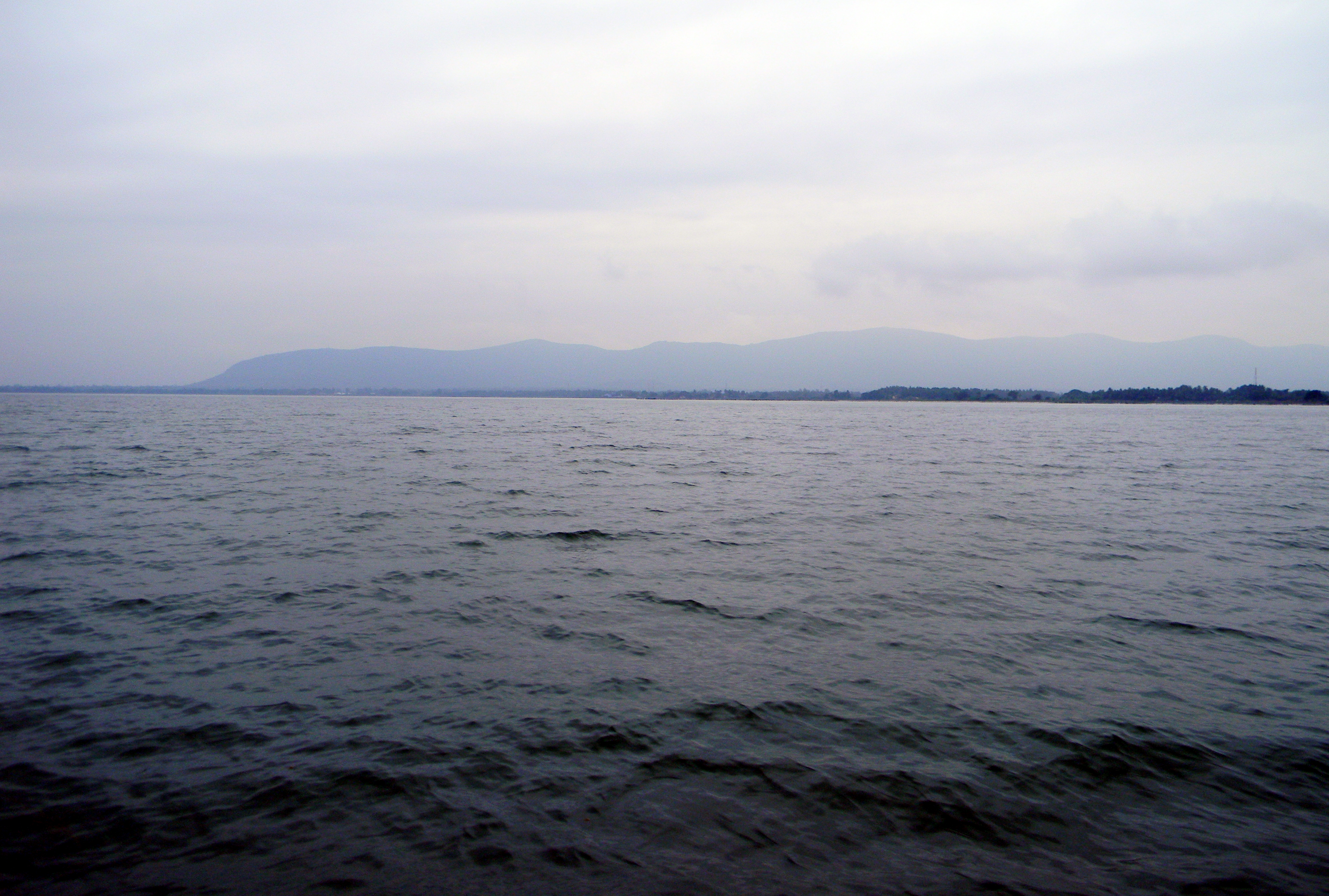 Chilika Lake, Khurda, Odisha This media file is uploaded with Odia loves Wikipedia